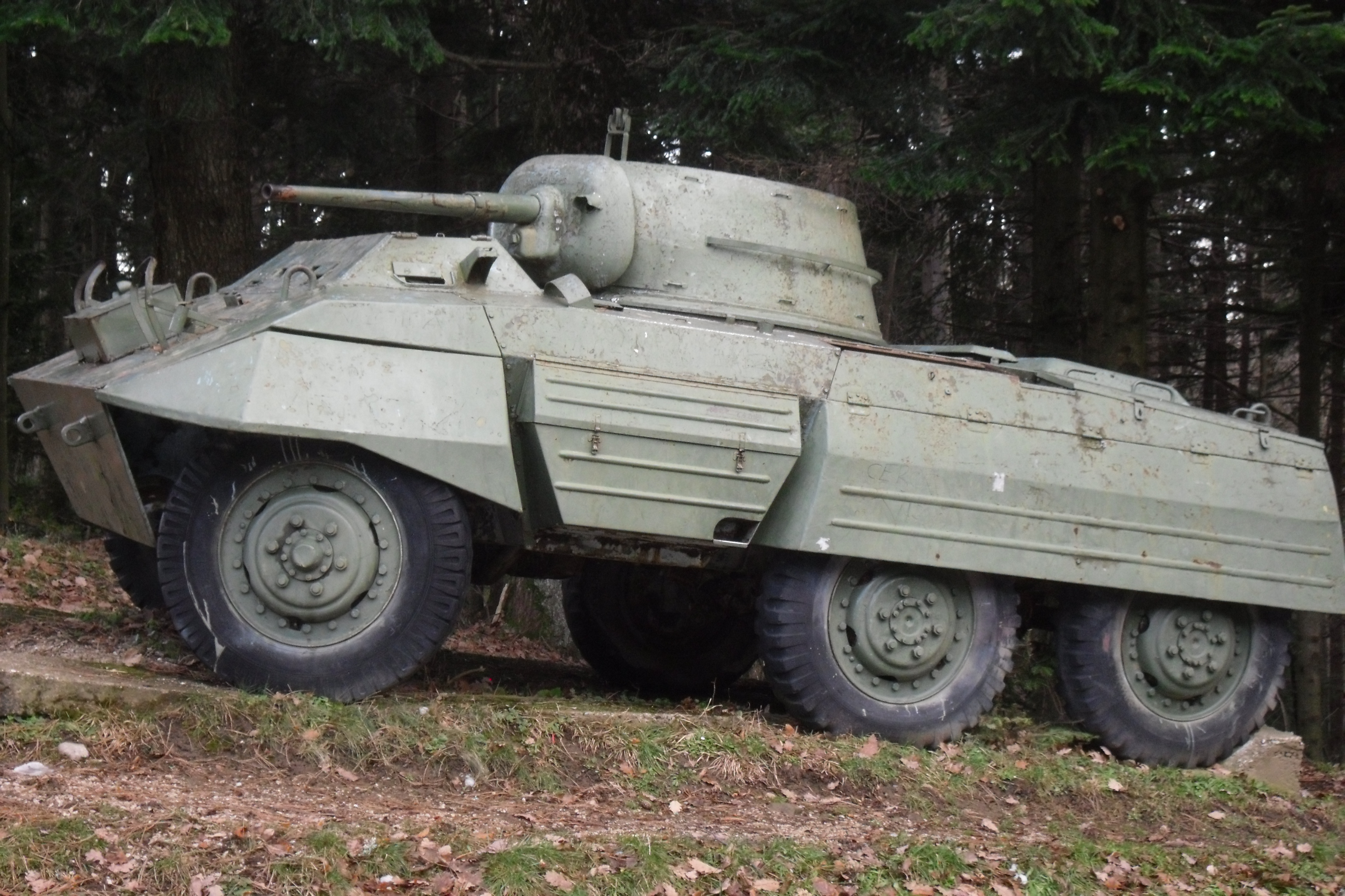 M8 Greyhound on Mrakovica WW II memorial centre, Prijedor.